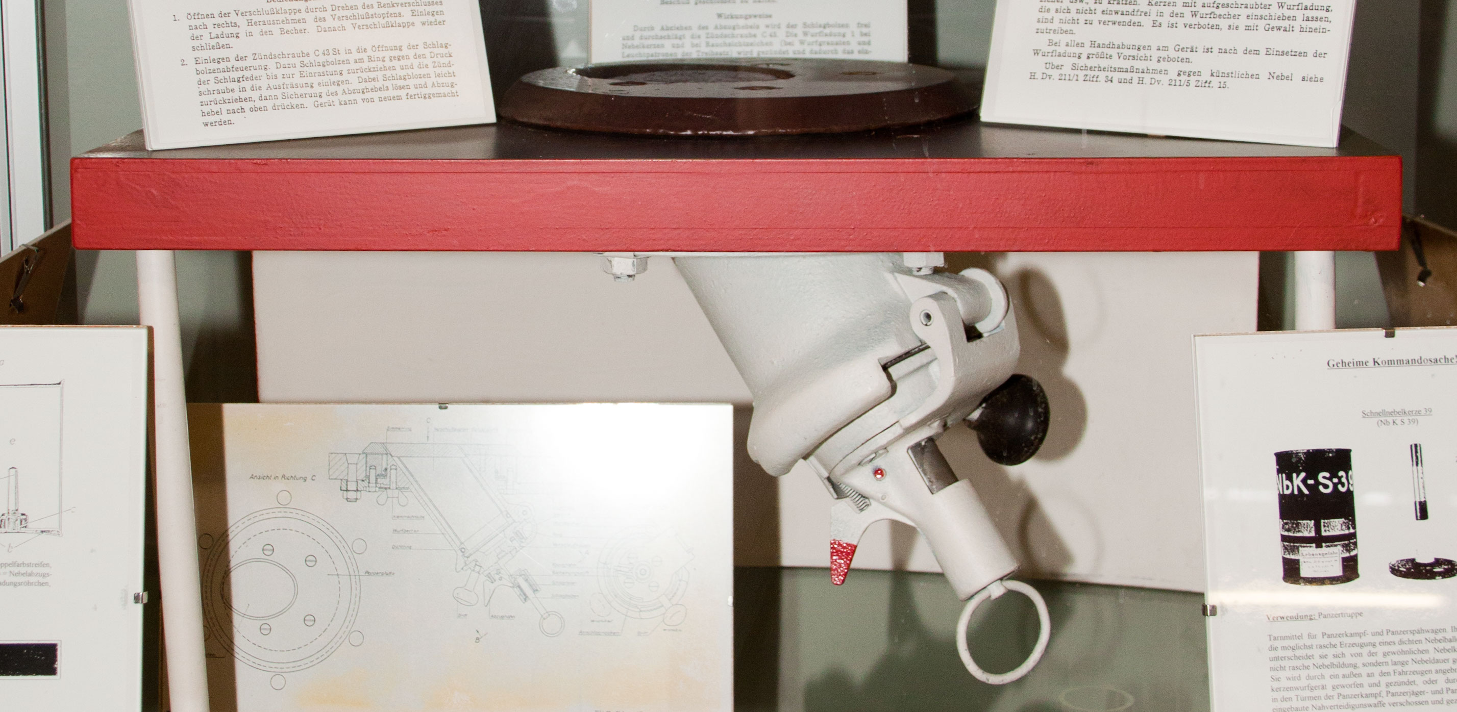 The Nahverteidigungswaffe was a smoke candle discharger for German panzers which could also be used as a close defense weapon to combat close assaulting infantry.